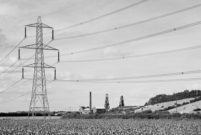 Wadworth Carr Looking across Wadworth Carr to Rossington Colliery. To the right of the picture a drainage pump on the river Torne. The flat countryside is dominated by the grid transmission lines.